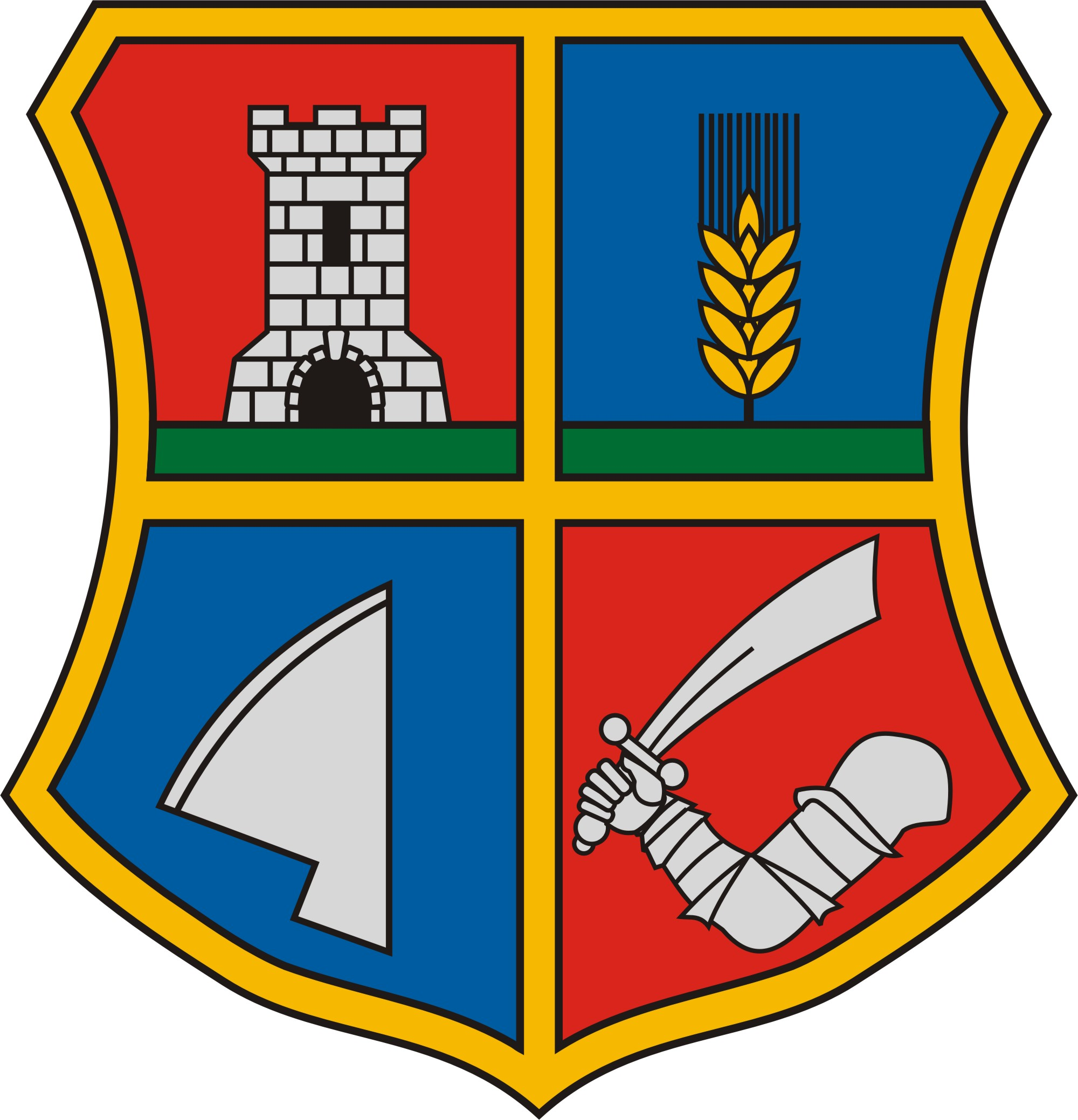 Coat of arms of Szil, Hungary